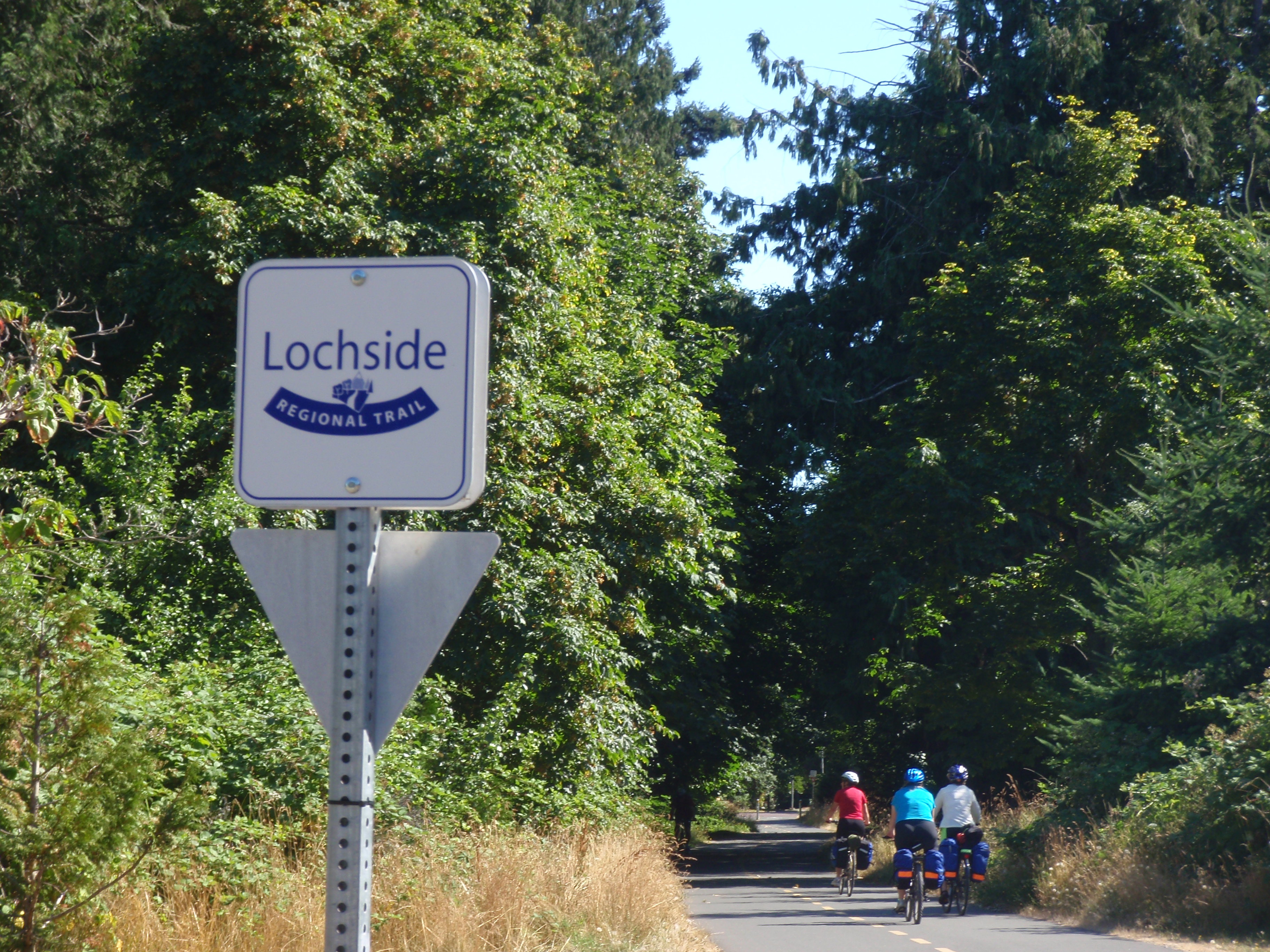 Sign for the Lochside Regional Trail, along with some cyclists on the trail.